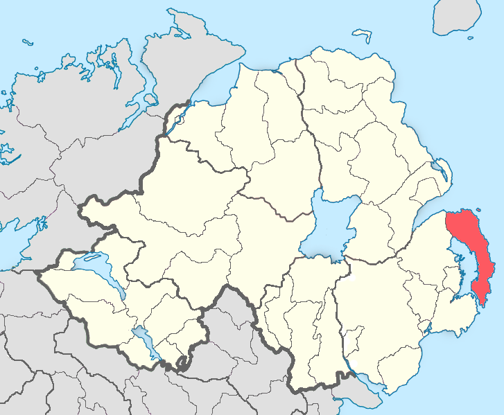 Ards barony pre-split